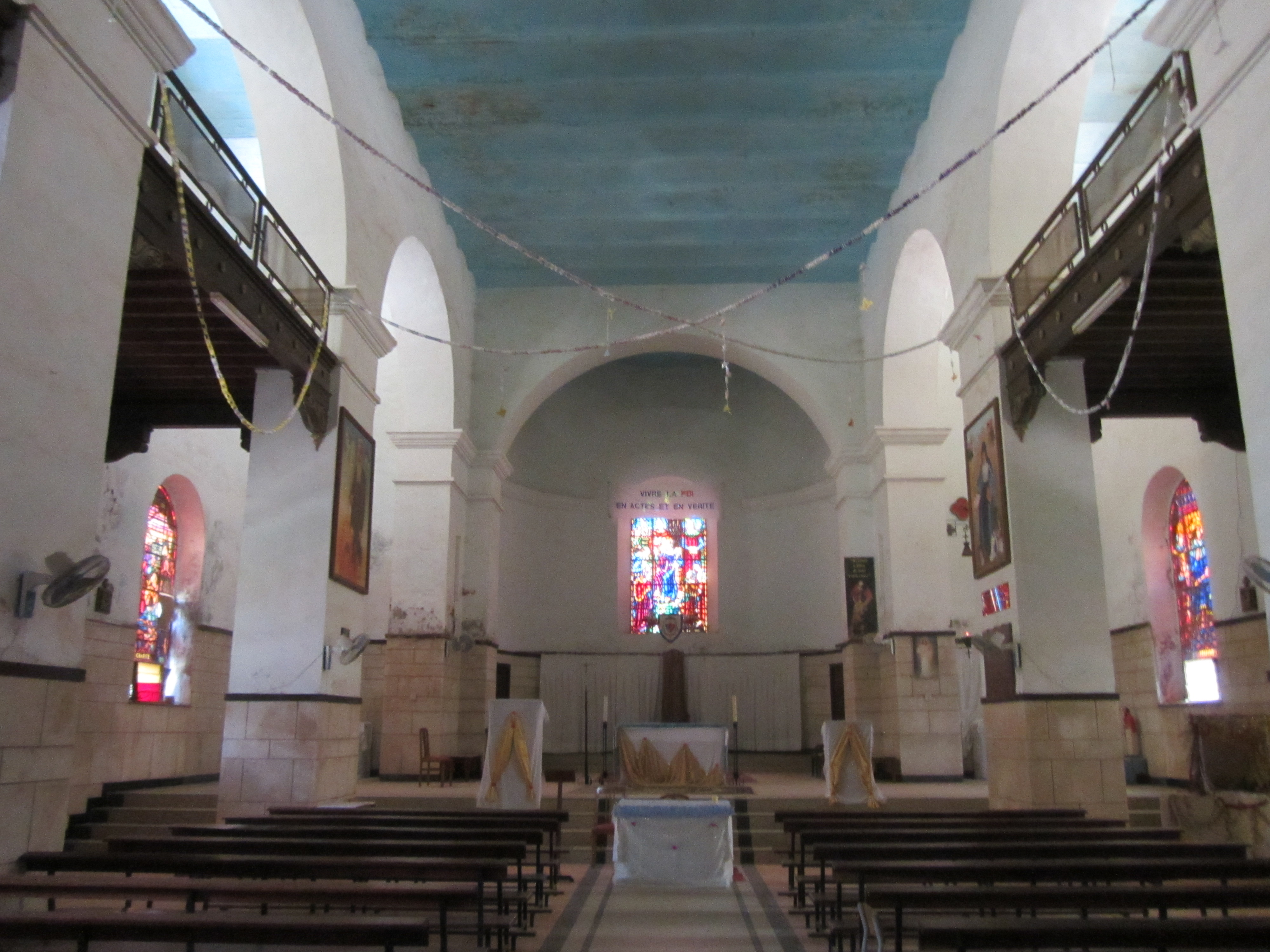 This document was produced using the Canon PowerShot SX230 HS lent by Wikimedia France.